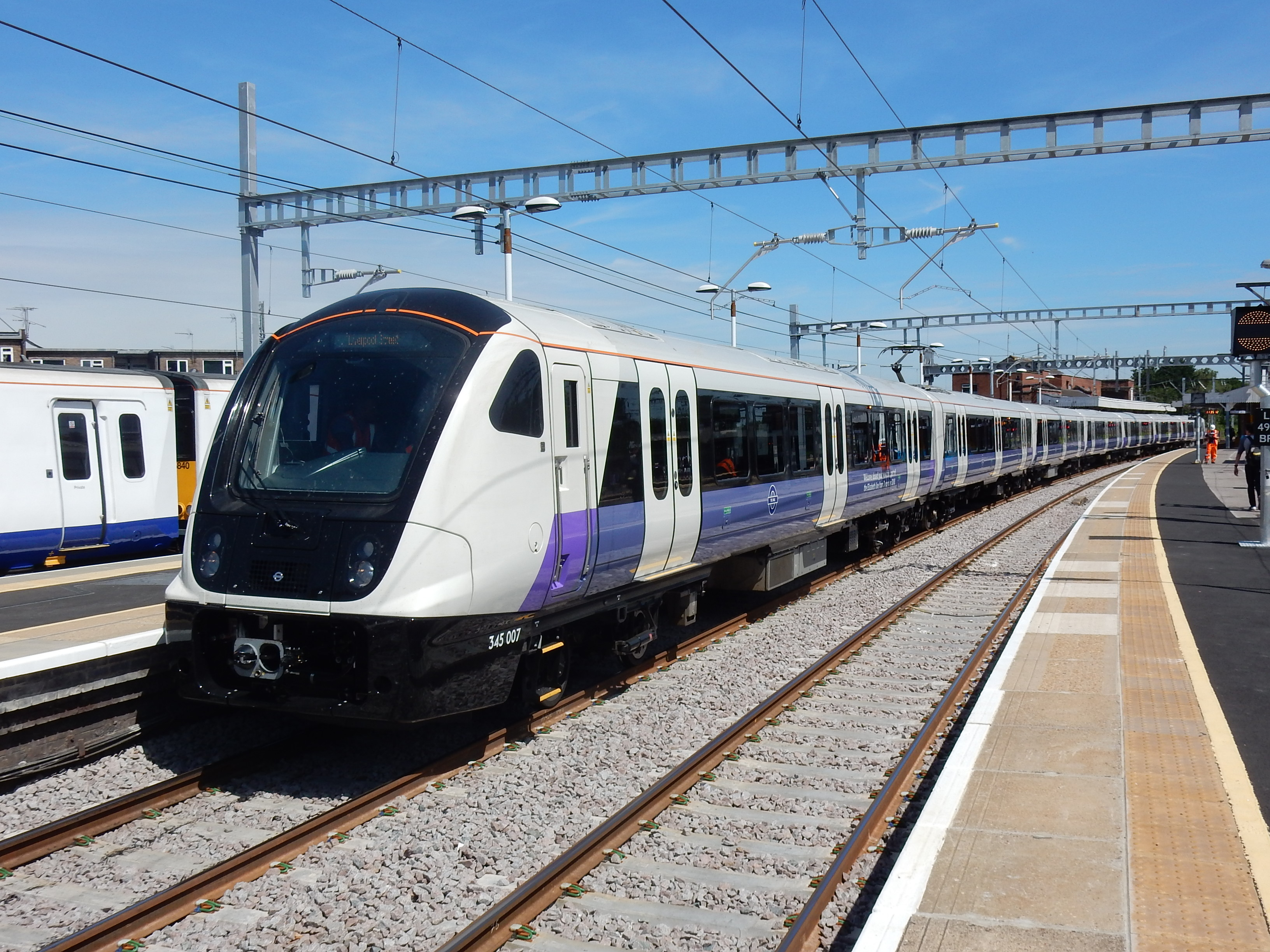 Class 345 unit 345007 basks in the sunshine at Shenfield station before making the (at time of writing) daily westbound Class 345 service towards London Liverpool Street, on 7th July 2017.